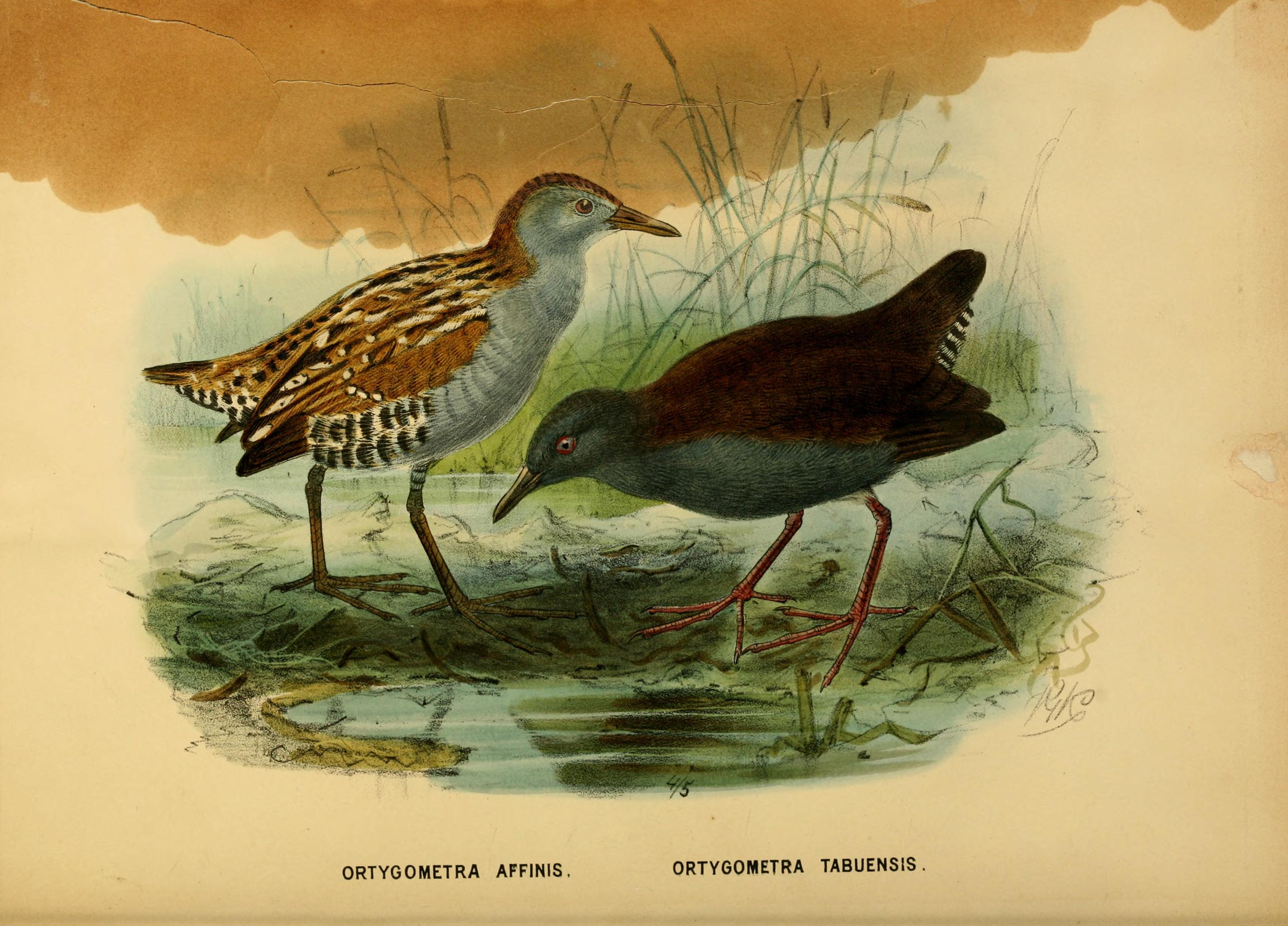 On left: Marsh Crake or Baillon's Crake, Porzana pusilla affinis. On right: Spotless Crake Porzana tabuensis plumbea.Original caption: “Ortygometra affinis. Ortygometra tabuensis.”